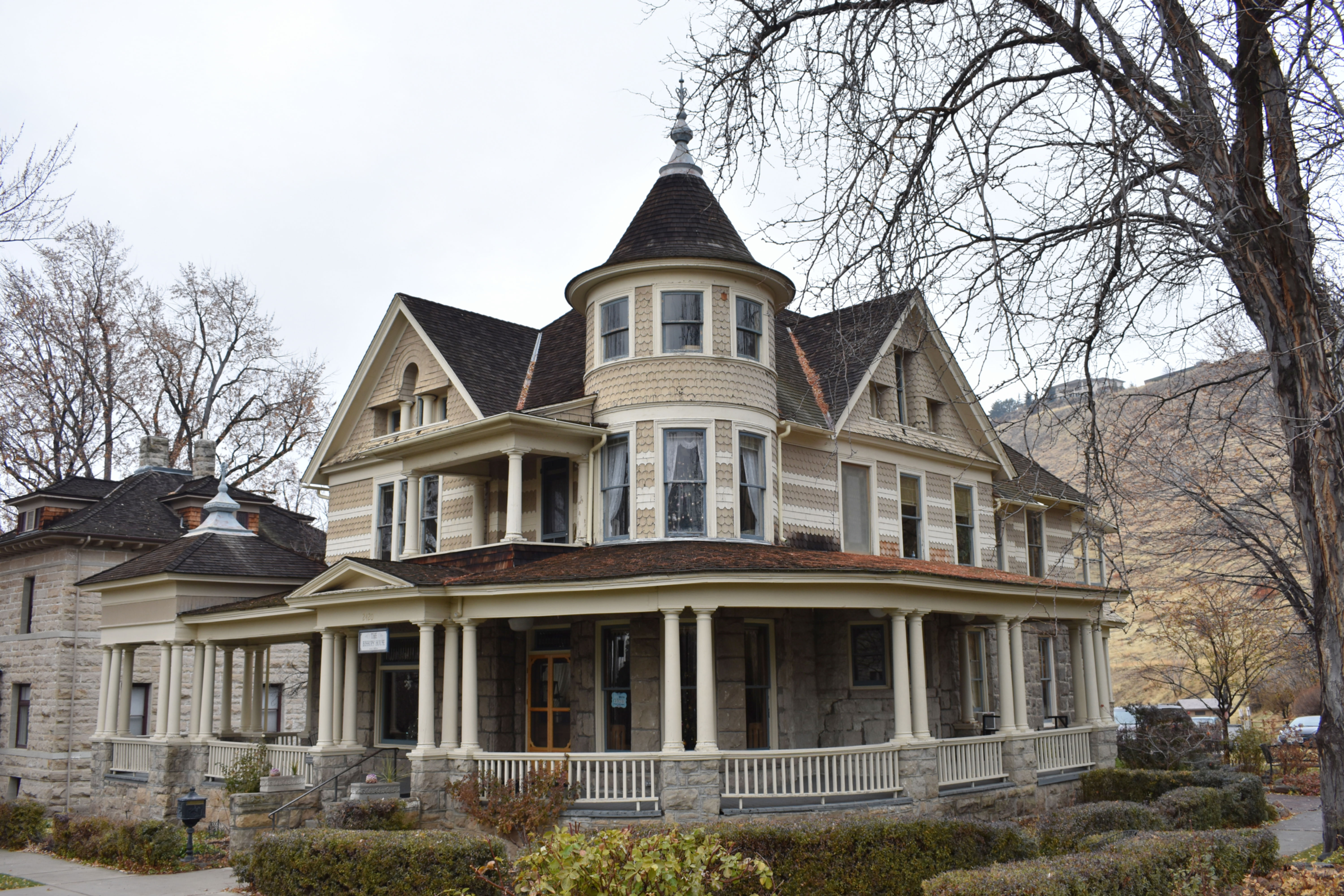 The Bishop Funsten House (1889) was remodeled and expanded by Tourtellotte & Co. in 1900. The house was moved in 1976 from its original location at 120 Idaho Street in Boise to its current location at 2420 Old Penitentiary Road.